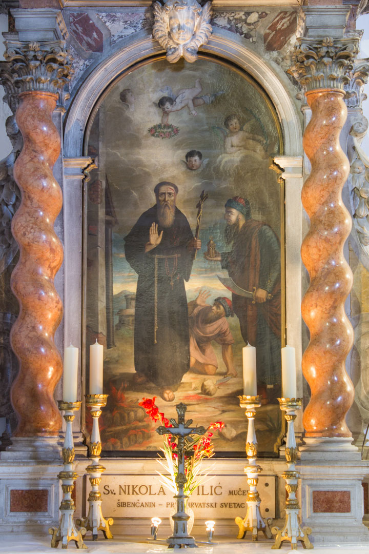 Oltar of Saint Nikola Tavelić in Šibenik (Croatia), in church of St. Francis of Assisi